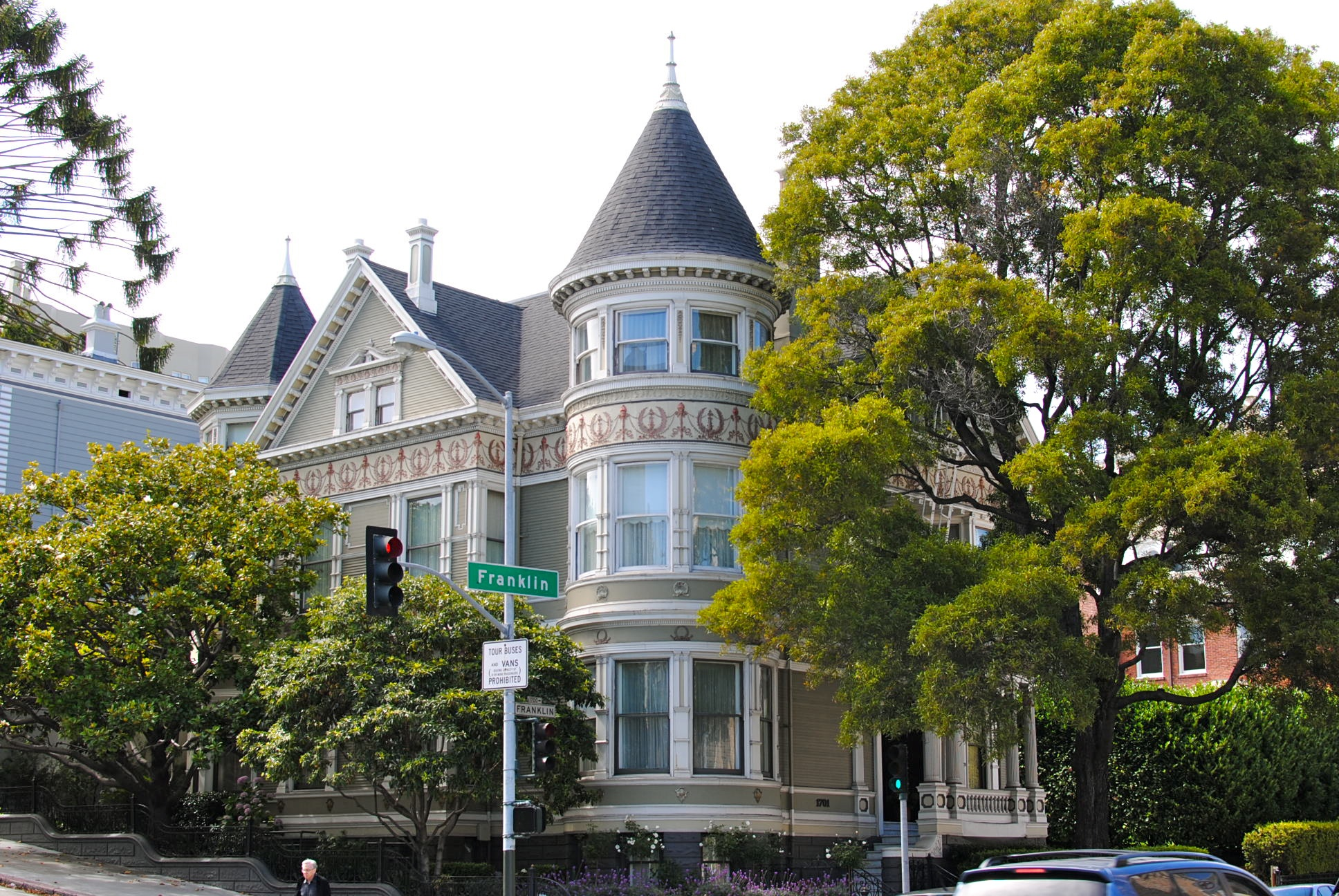 Franklin & California streets (1701 Franklin St.) - Edward Coleman House, 1895. A San Francisco designated landmark.